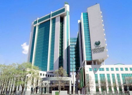 Sberbank head office in Moscow